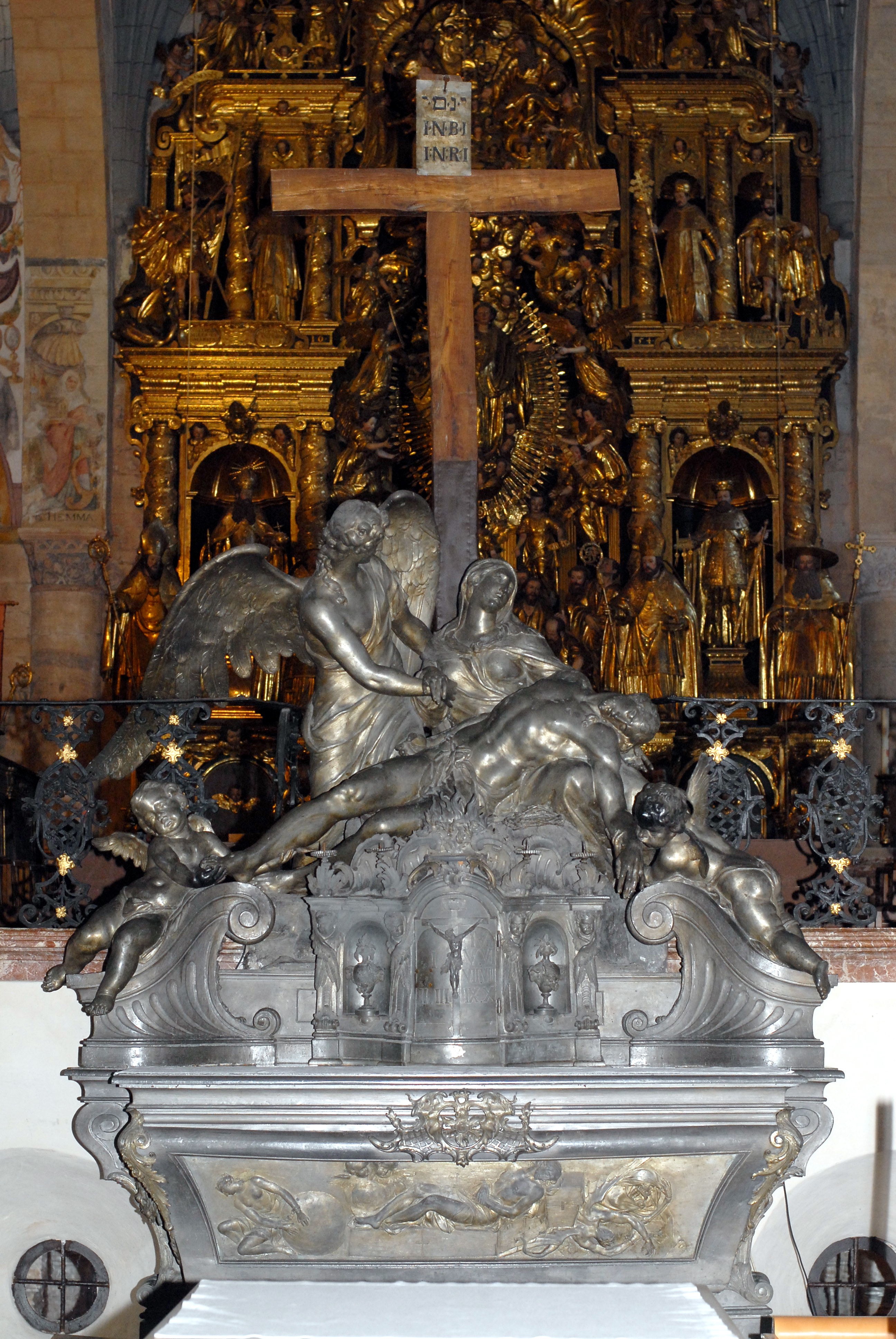 Cast lead pietá of Raphael Donner of the cross altar in the cathedral of Gurk, Carinthia, Austria